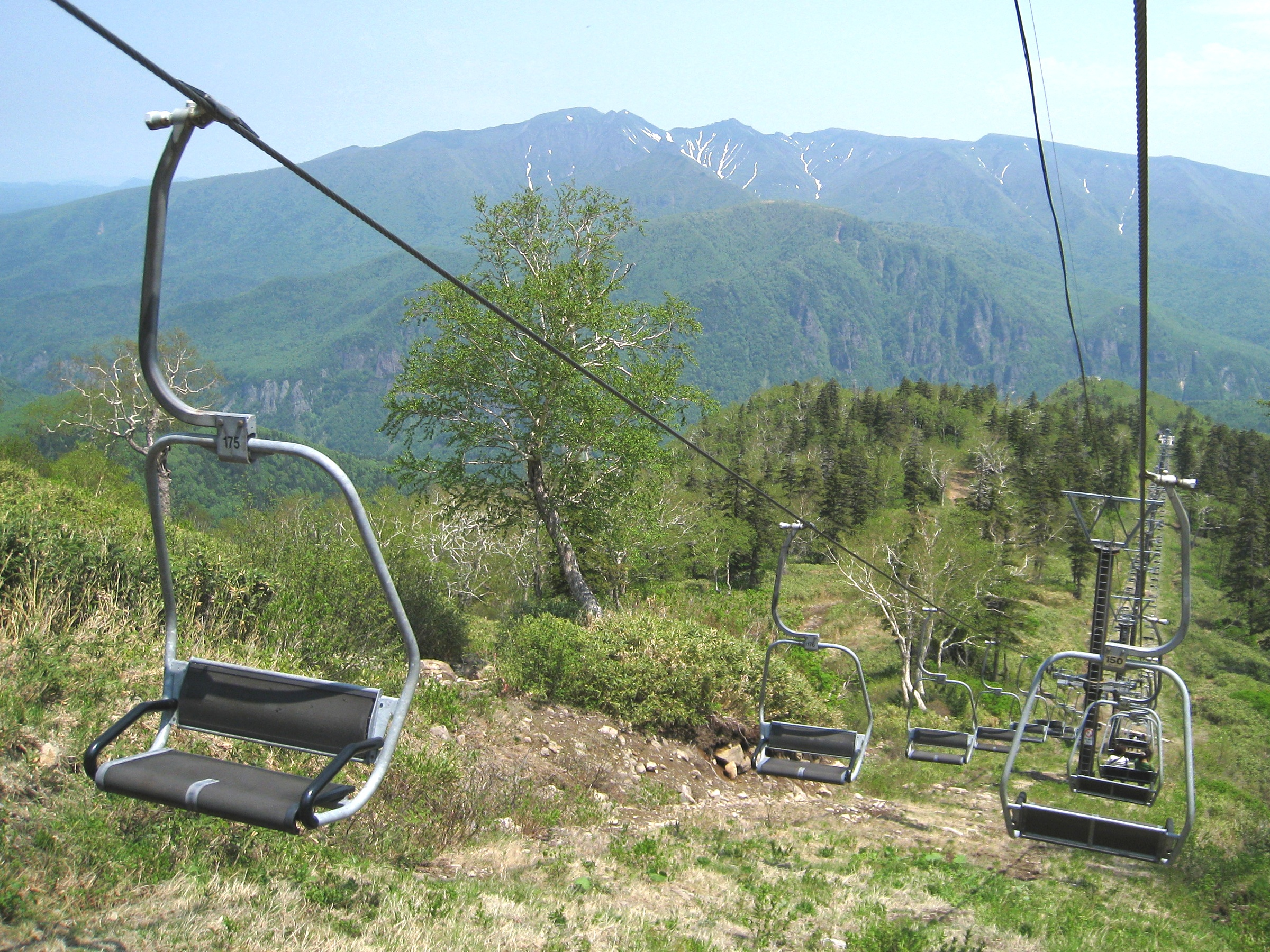 Kurodake Chairlift connected to Daisetsuzan Sōunkyō Kurodake Ropeway, This photo taken in June 18, 2008